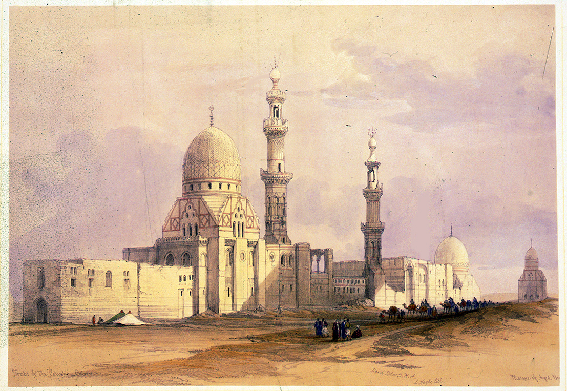 Picture of a print from David Roberts' Egypt & Nubia, issued between 1845 and 1849.